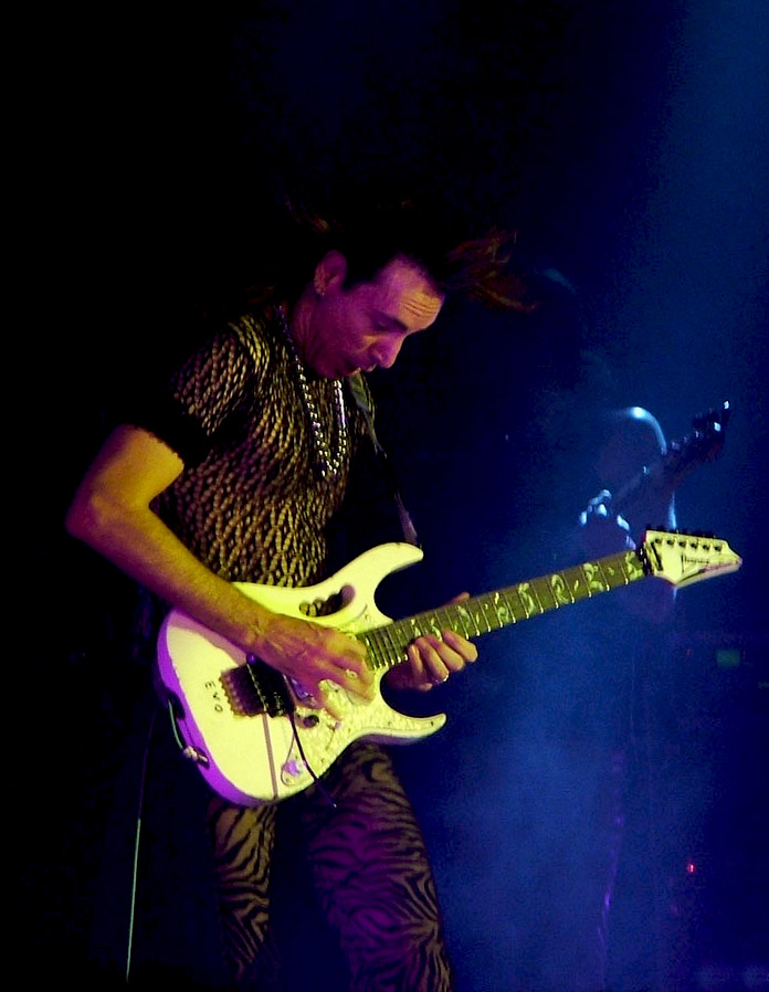 Steve Vai in Milan (Alcatraz), 25th September 2005.